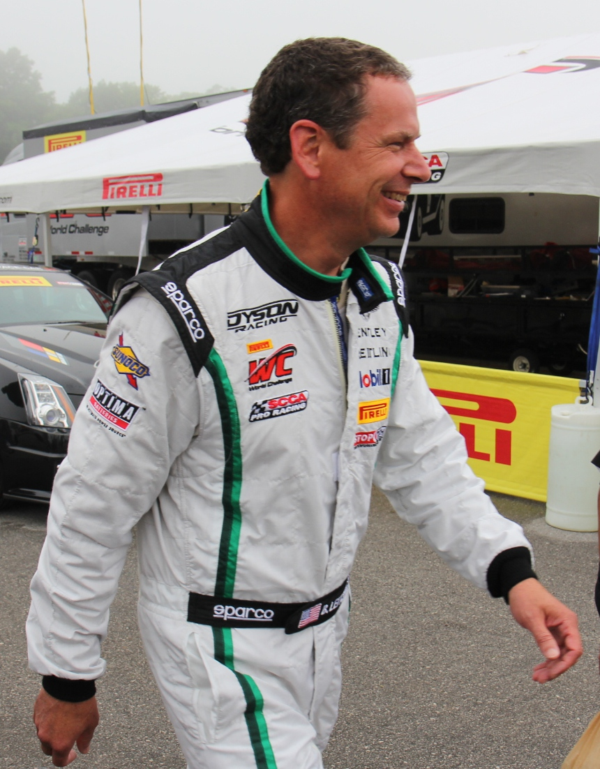 Sports car racing driver Butch Leitzinger before his Pirelli World Challenge race at Road America.